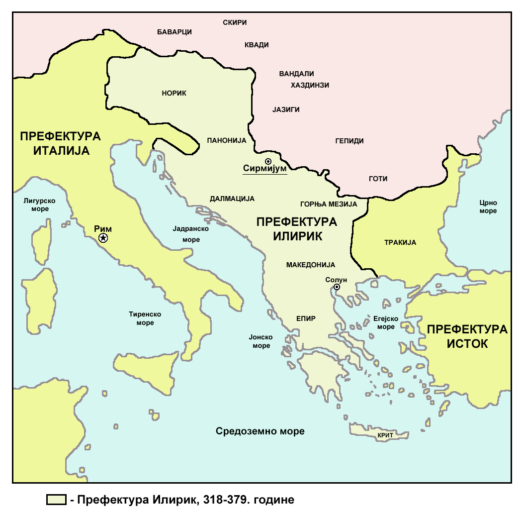 Historic map of Roman Praetorian Prefecture of Illyricum, 318-379 AD.